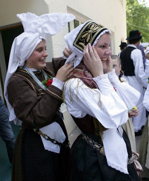 A girl helps her friend tie her head scarf as they wait for President George W. Bush's as he participates in a United States - European Union Working Lunch Tuesday, June 10, 2008, at the Brdo Congress Centre in Kranj, Slovenia.